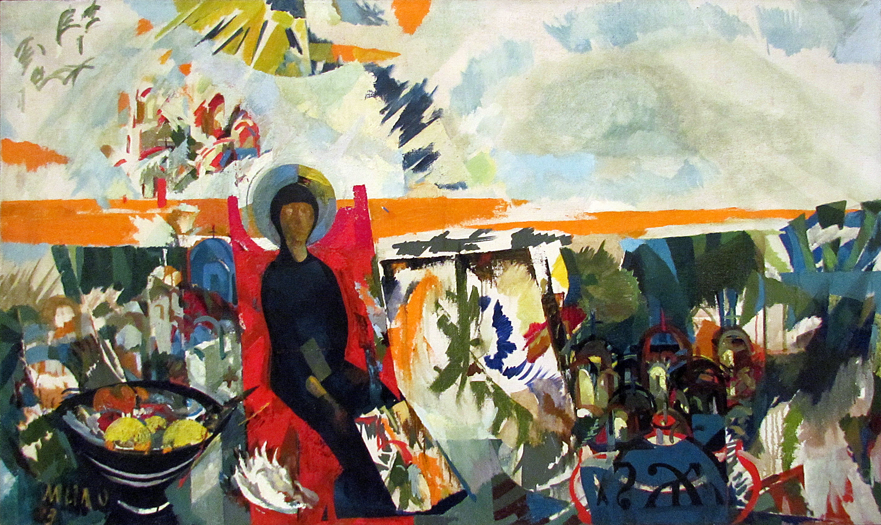 Milo Dimitrijevic: Ethiopian Saint Mary, 1983 (oil on canvas, 150x90)